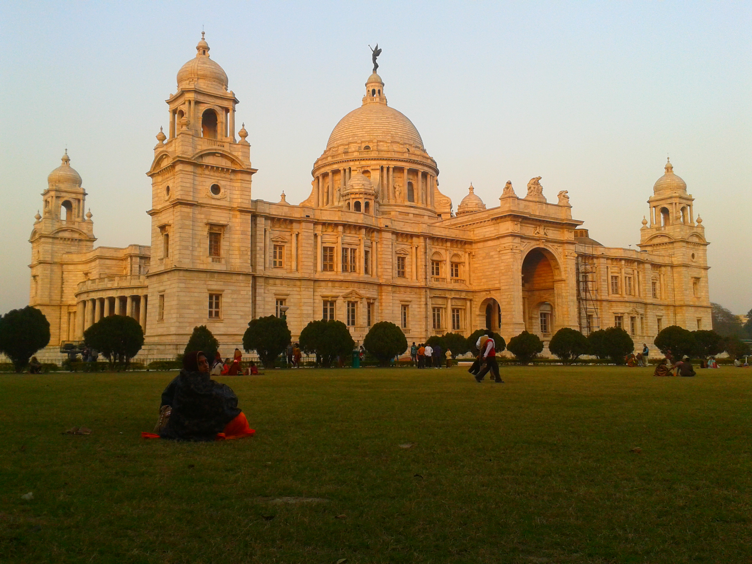 Victoria Memorial, an eminent monument in Kolkata. Built by the British Empire.